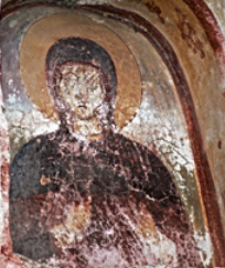 Ascension_of_Jesus_Church_in_Drenovo_Fresco.